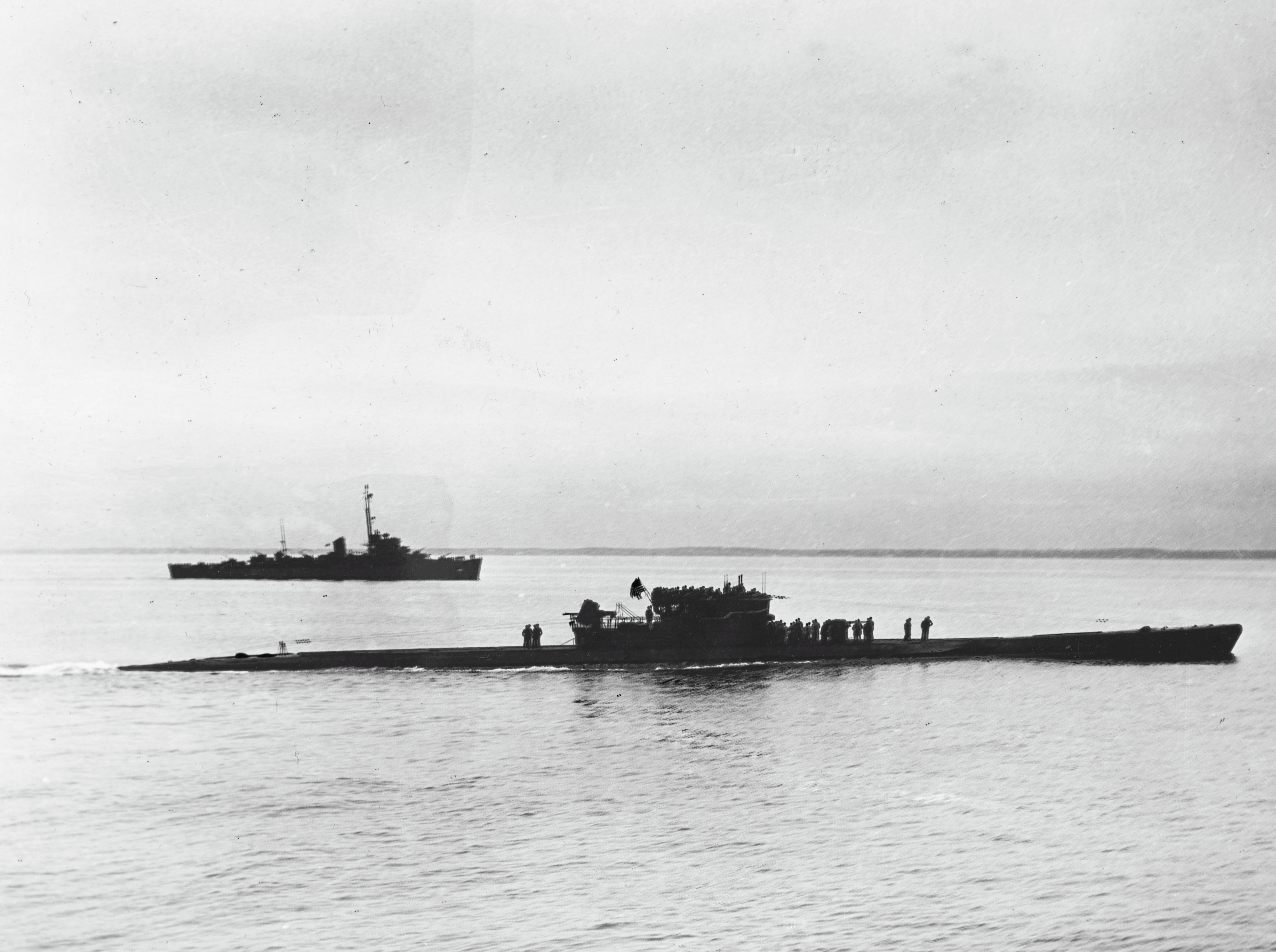 The surrendered German submarine U-805 and a U.S. destroyer escort off Portsmouth, New Hampshire (USA), on 14 May 1945. U-805 was escorted by USS Otter (DE-210) and USS Varian (DE-798). As Varian escorted U-805 on the port side, the ship visible is probalby Varian and not Otter.